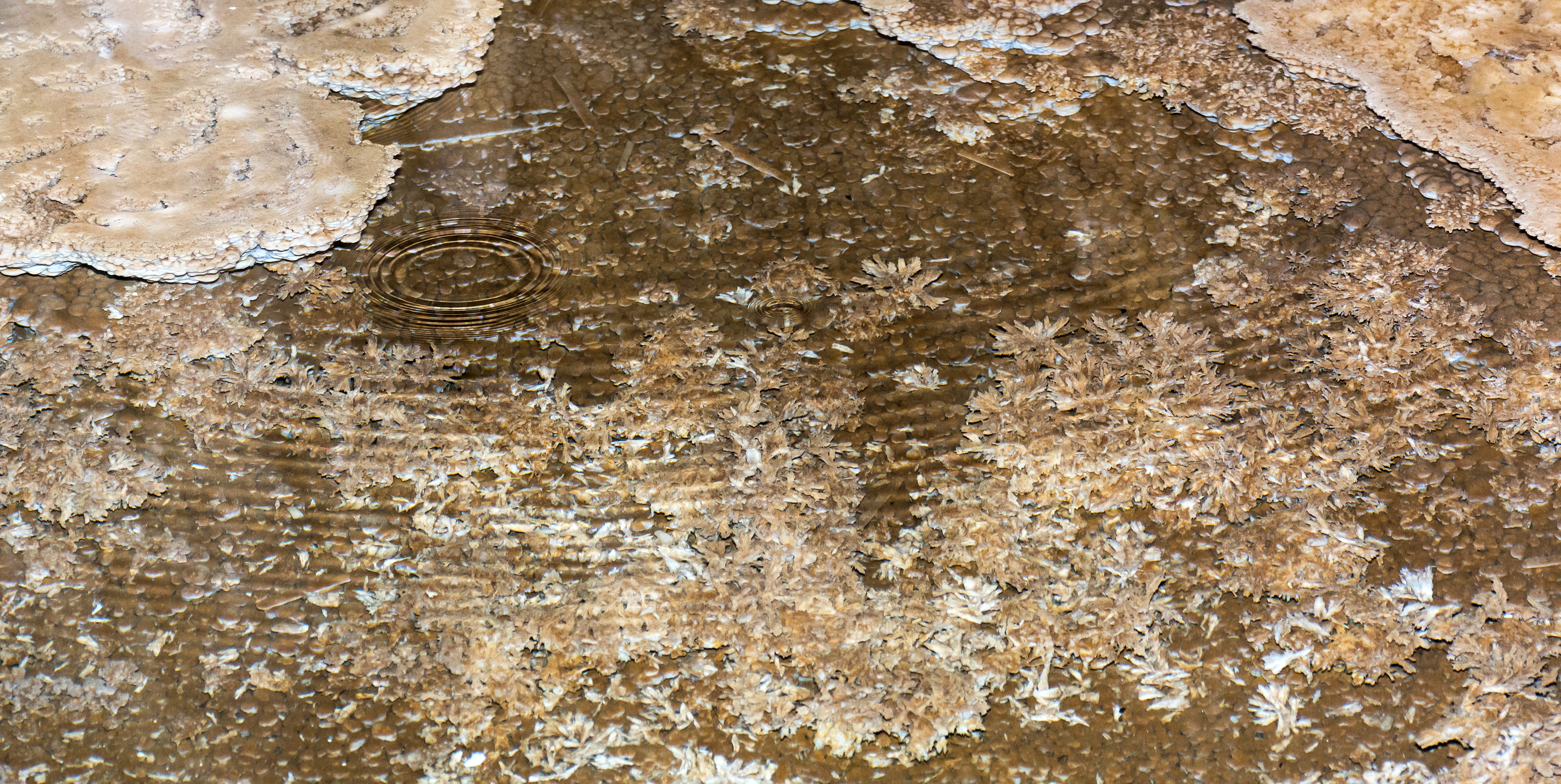 Bear Cave in Kletno (Lower Silesia, Poland), necrotic lake